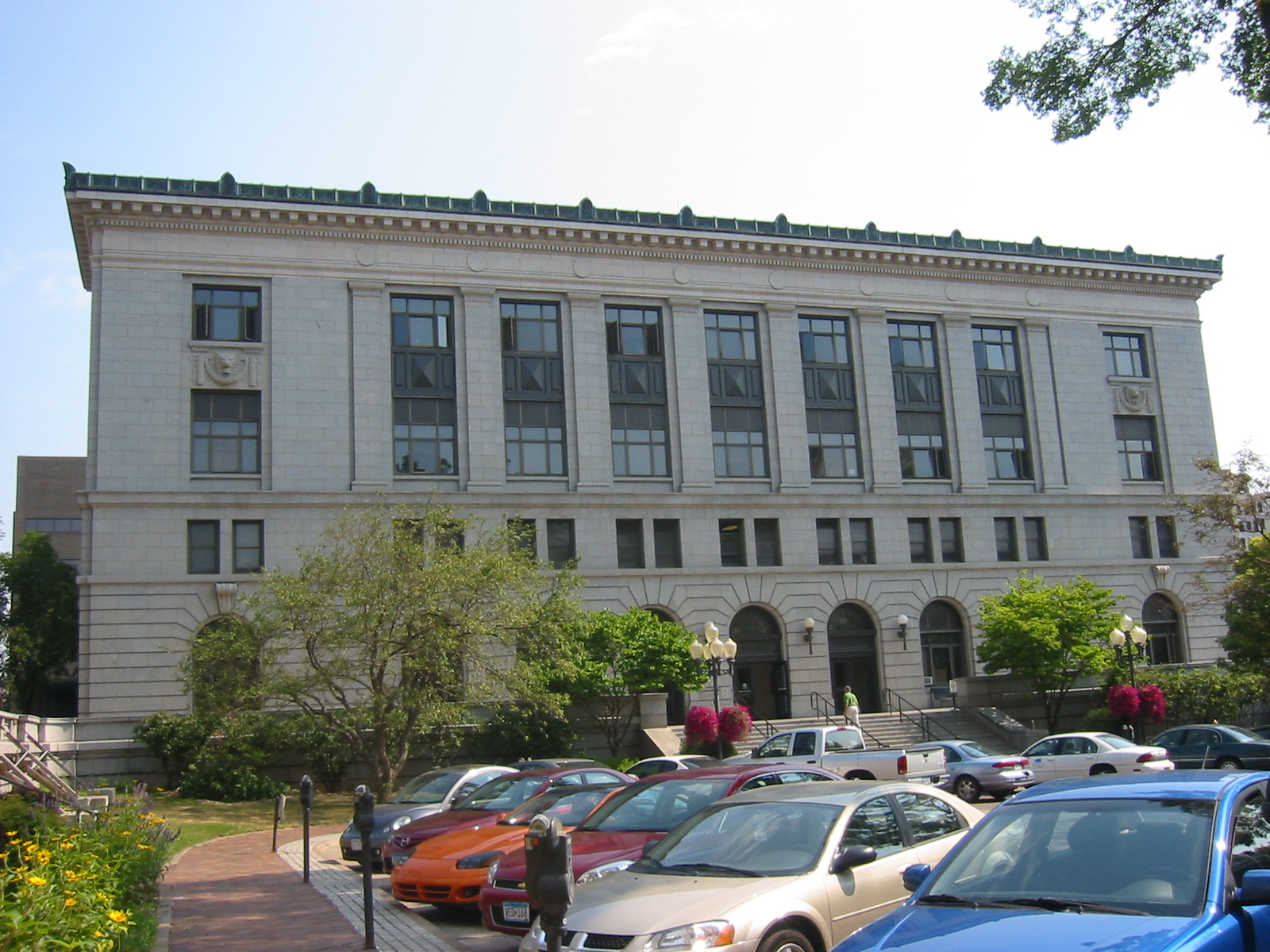 Duluth City Hall in Duluth, Minnesota, listed on the National Register of Historic Places as part of the Duluth Civic Center Historic District.